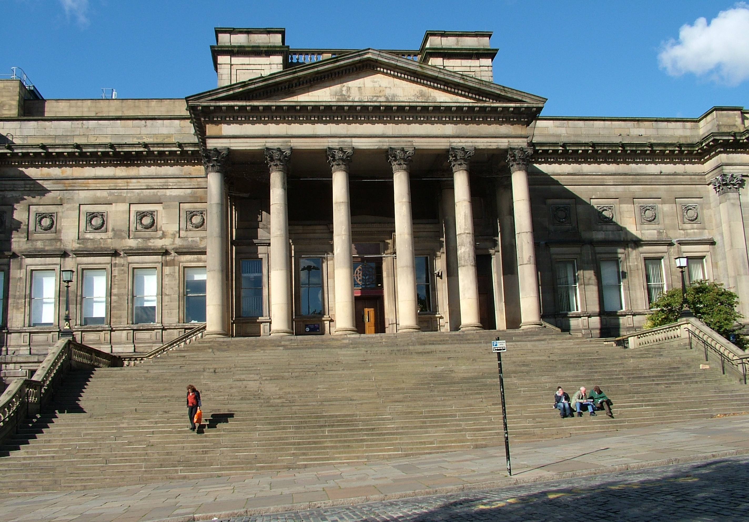 Liverpool Museum and Library. Taken by Chris Howells, September 2005.